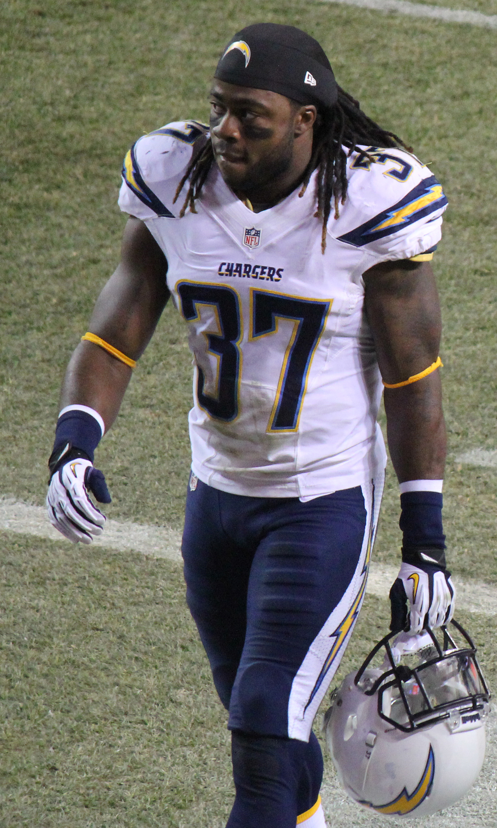 Jahleel Addae, a player on the National Football League.